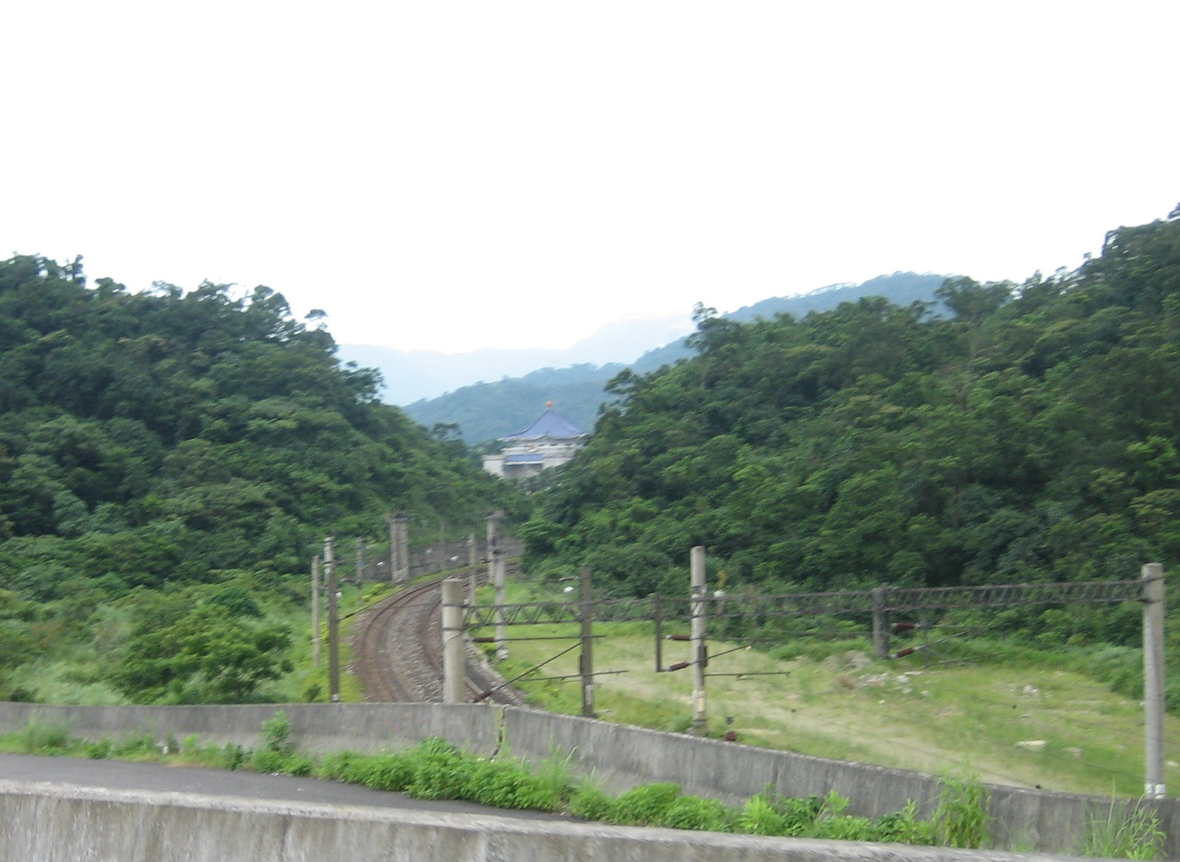 View from the overpass over North-Link Line looking south toward Hualien, which is near the Suaosin Station. The station is the starting point of North-Link Line and end point of Yilan Line.